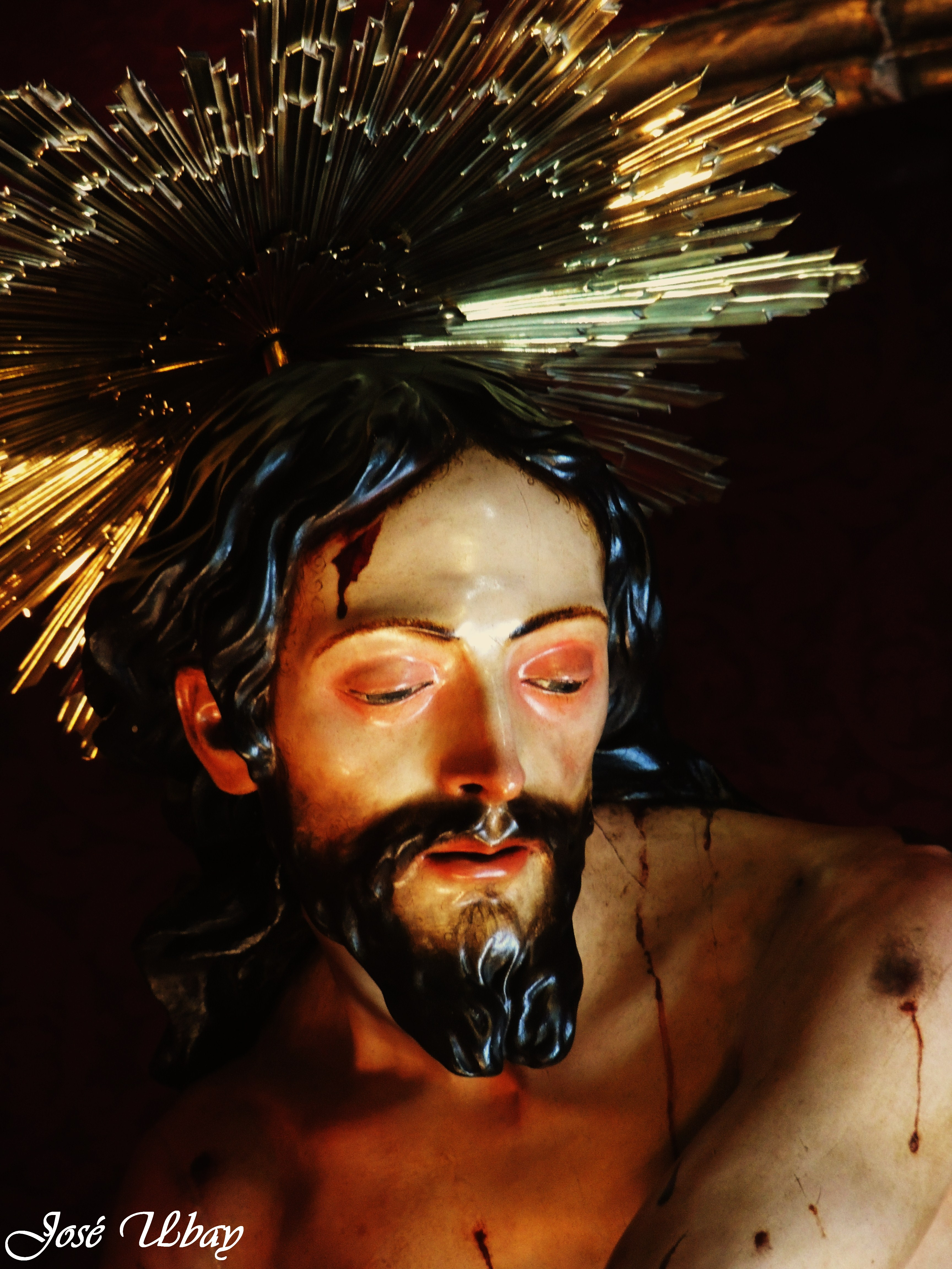 Santísimo Cristo de la Columna by Pedro Roldán, 1689. Parroquia de San Juan Bautista, Villa de la Orotava, Tenerife.